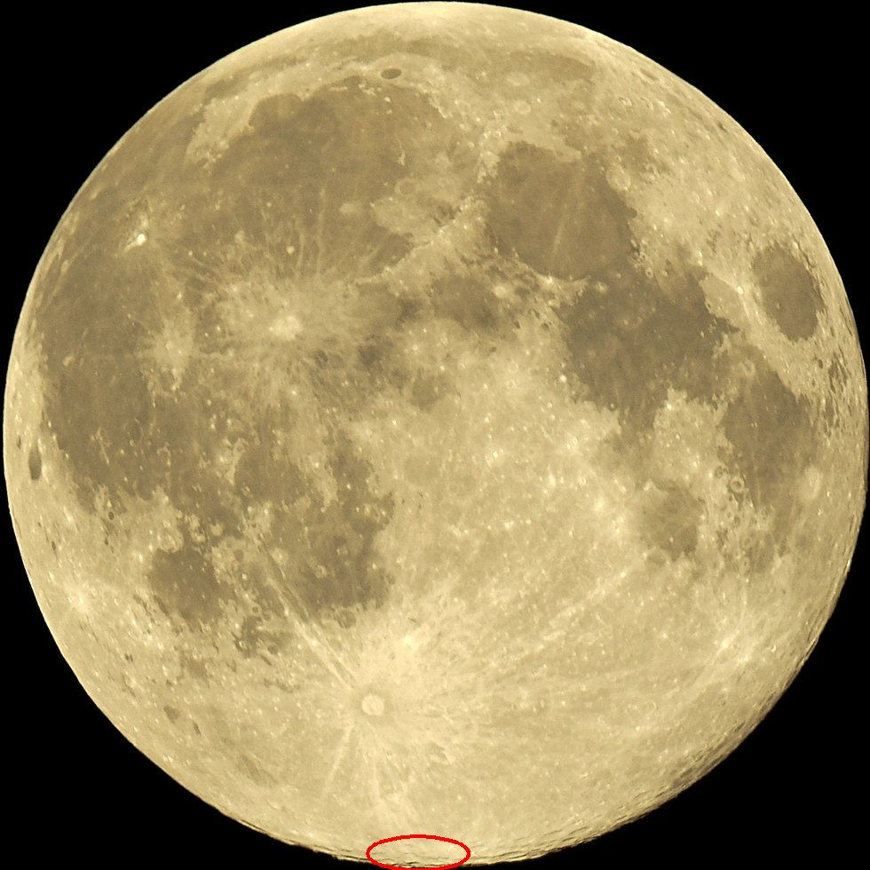 Location of crater Cabeus on the Moon